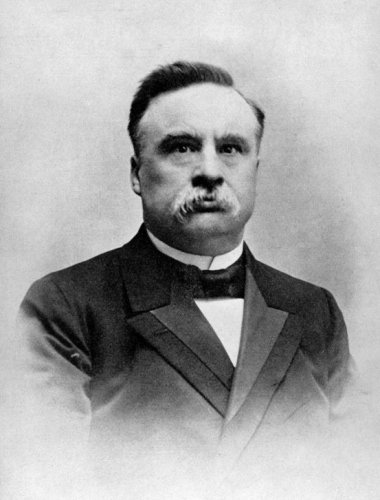 Gerardus Johannes Petrus Josephus Bolland (1854-1922), Dutch philosopher, professor at Leiden University